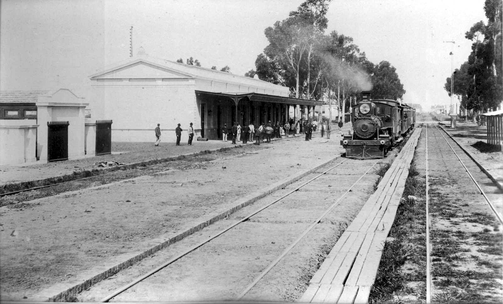 Tolosa station in times that belongs to the Province of Buenos Aires railroad.